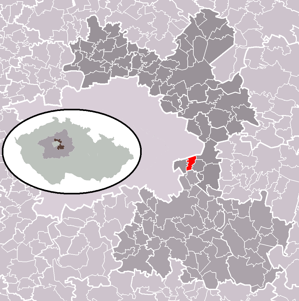 Location of Květnice municipality within Prague-East District and administrative area of Brandýs nad Labem-Stará Boleslav as a Municipality with Extended Competence.